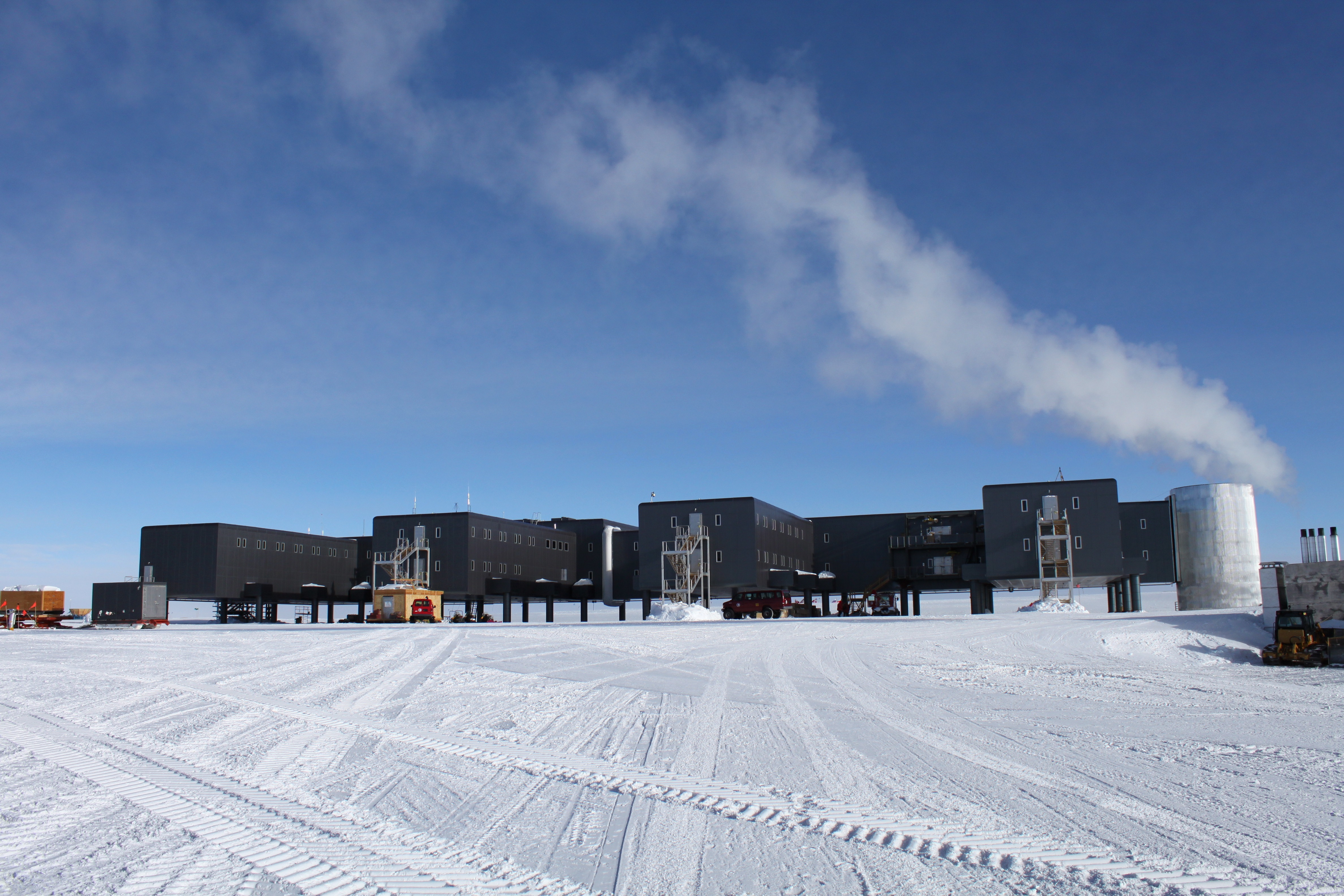 The new elevated Amundsen-Scott South Pole Station